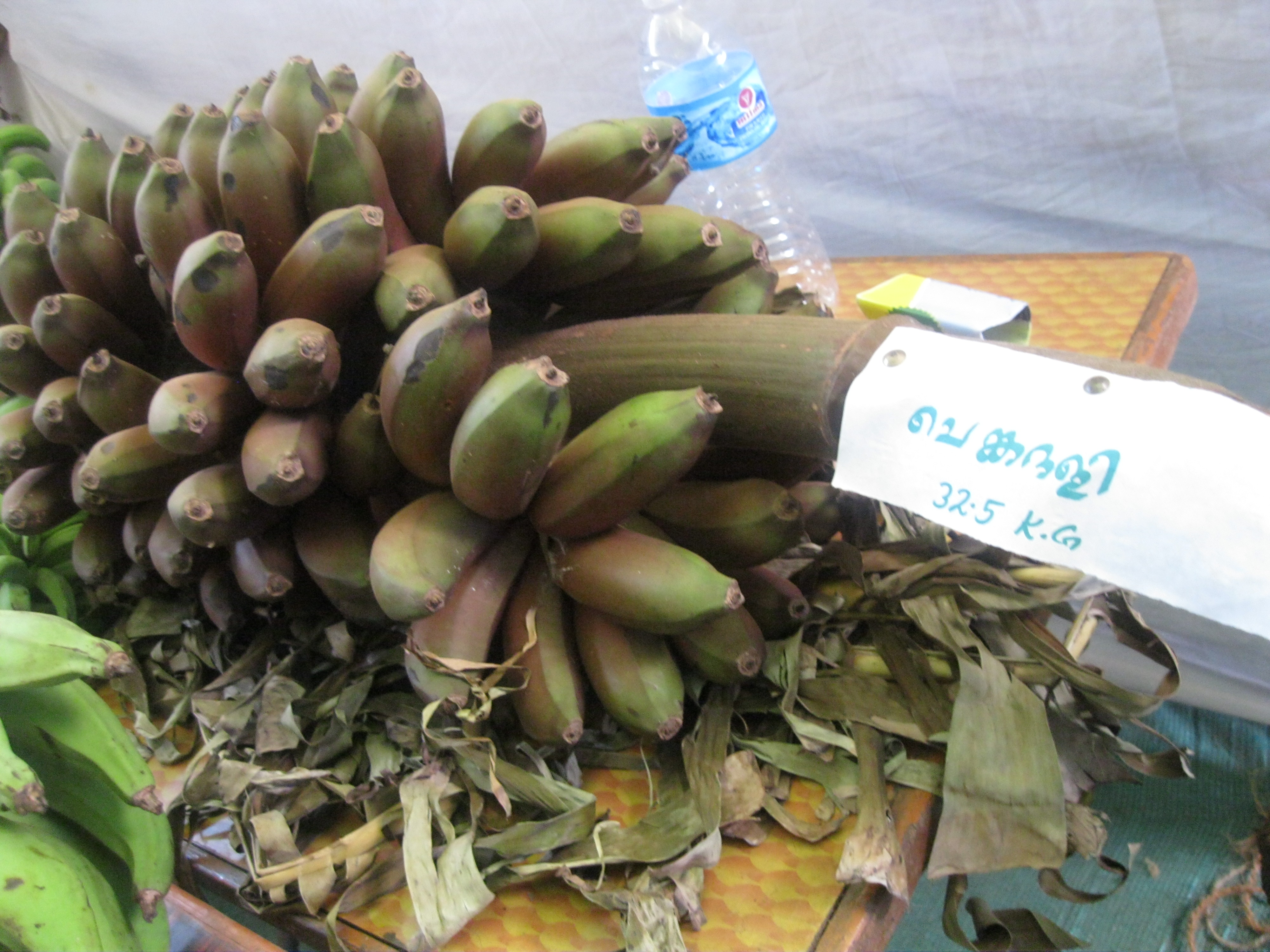 a variety of banana in kerala having red colour when ripe